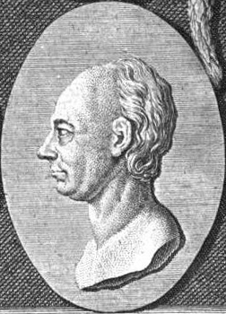 Christoph Julius Gravenhorst (1731−1794), chemist and entrepreneur, Brunswick, Germany.